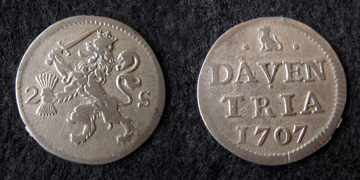 Double stiver of the city of Deventer, silver, 1707.